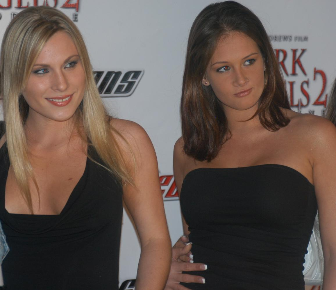 Harmony Rose, Tory Lane at West Coast Productions Party.